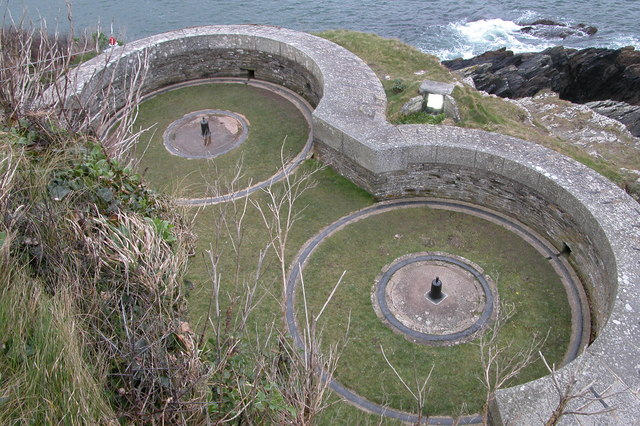 Gun platforms, St Catherine's Castle, Fowey Situated in the ruins of St Catherine's Castle overlooking the entrance to the harbour at Fowey.